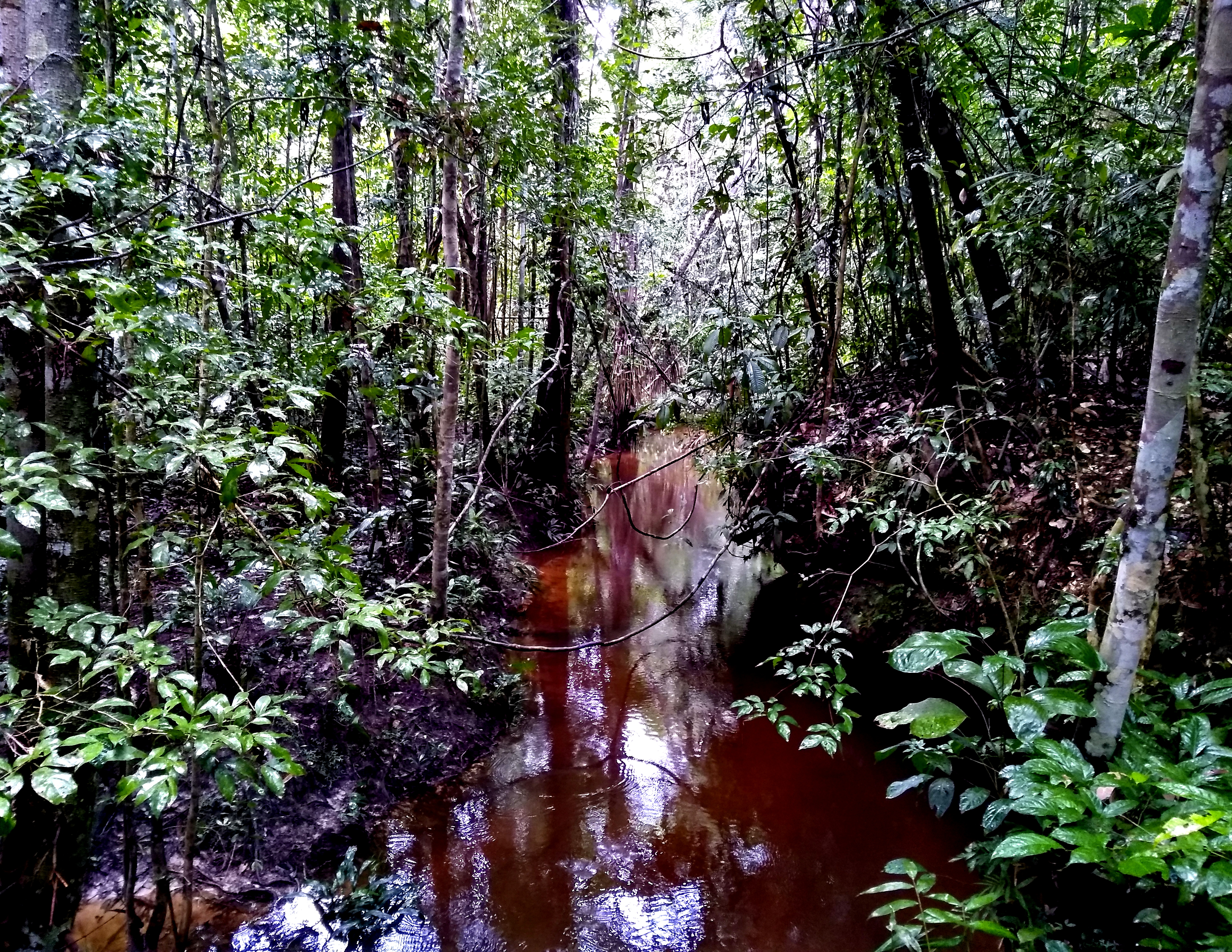 Typical amazonian "igarapé" (creek) in "terra firme" forest at Manacapuru, Amazonas, Brazil